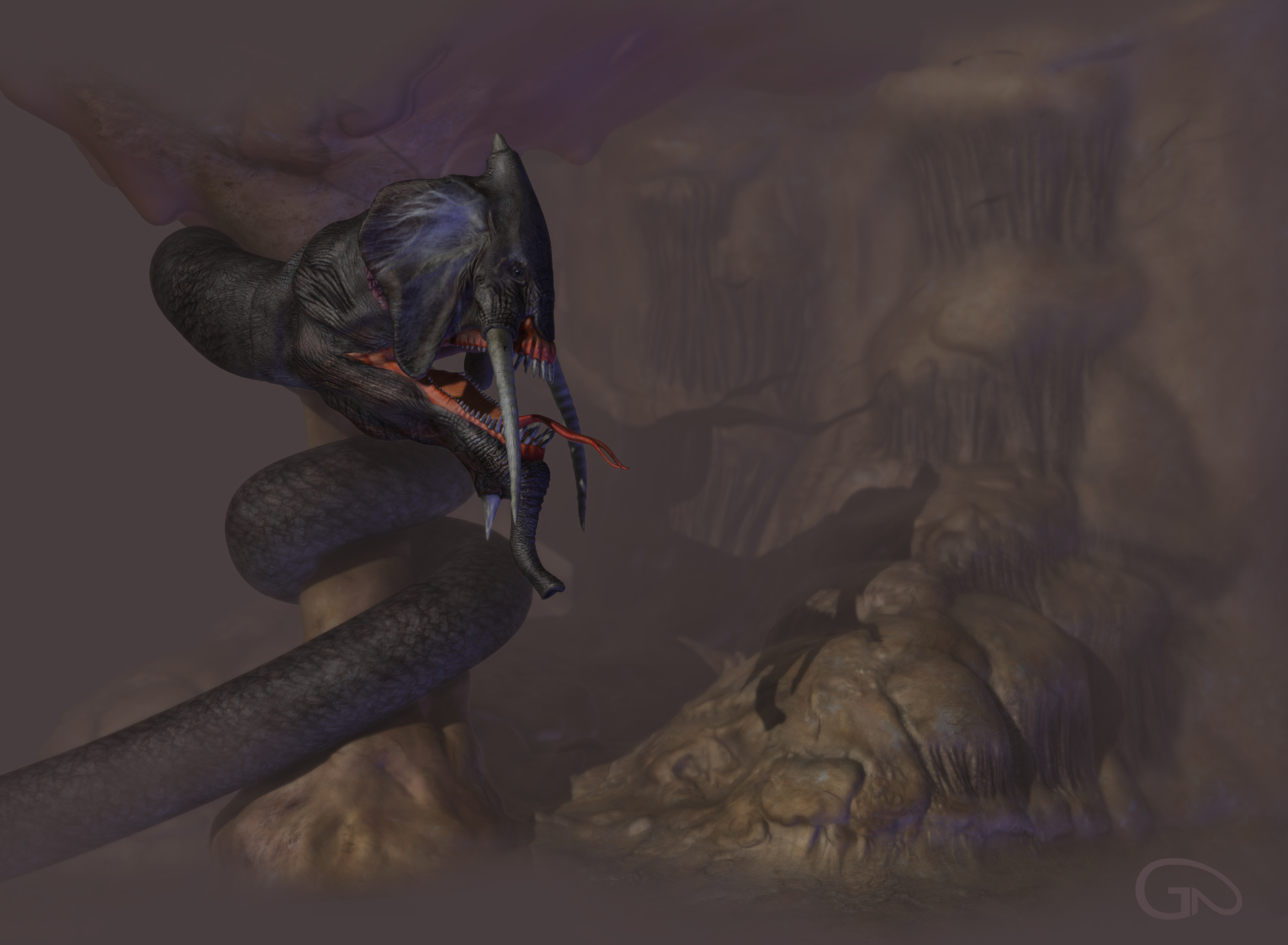 Artist rendition of a Grootslang or Grote Slang (in Afrikaans) a mythical creature from South Africa. This was sculpted in 3D application Zbrush by guatemalan artist Jeff McArthur.